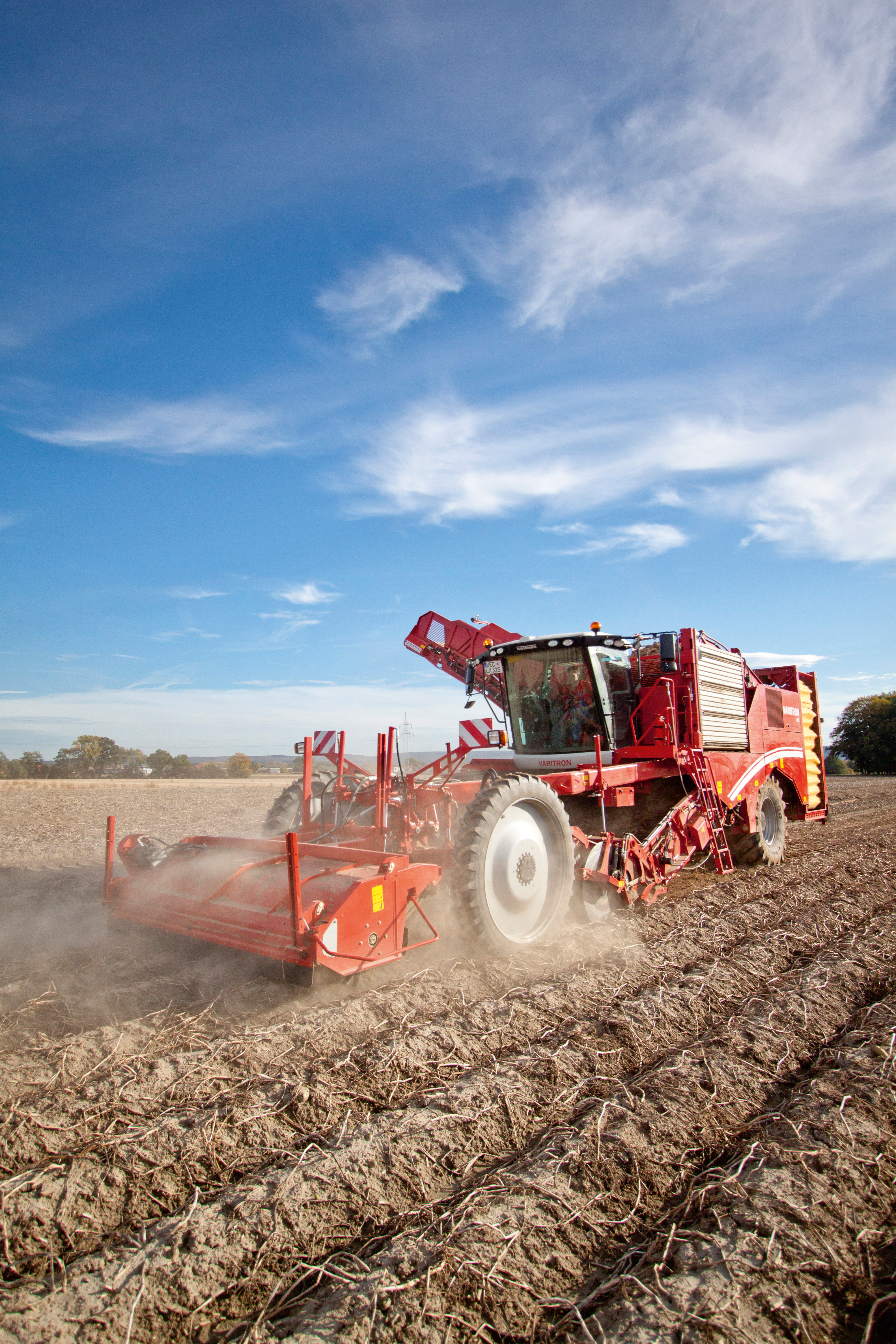 4-row, self-propelled potato harvester